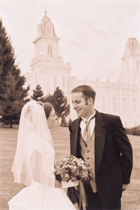 Created by Phil Scoville on June 25, 2005 Downloaded from: This picture is free to share and remix with proper attribution under the following license